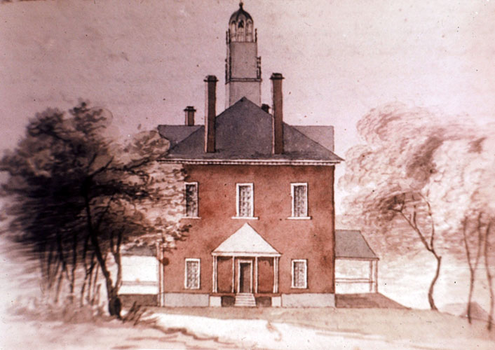 Watercolor of the North Carolina State House, built from 1792 to 1796, destroyed by fire 1831.